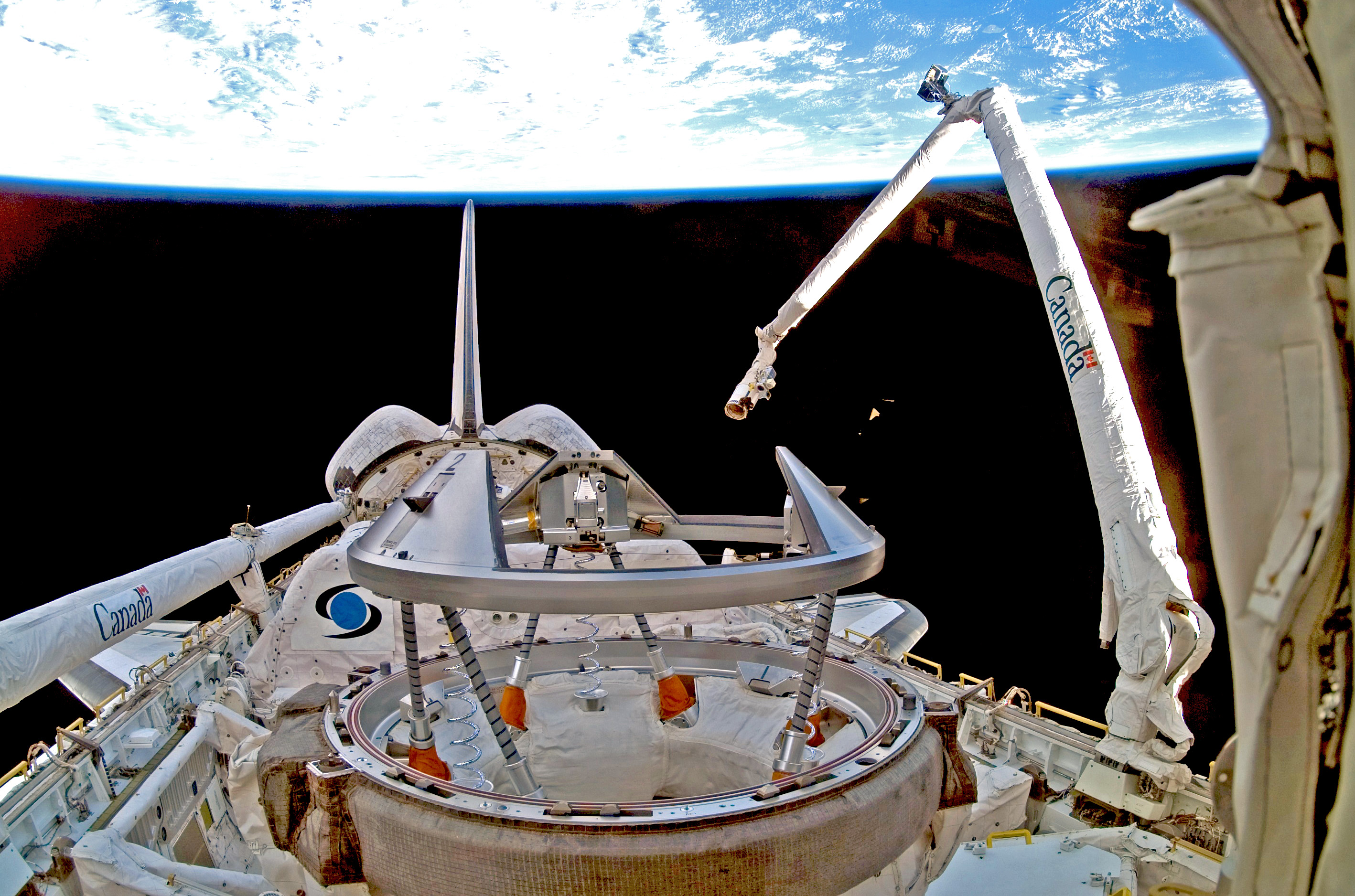 STS-116 Shuttle Mission Imagery S116-E-05364 (11 Dec. 2006) --- As seen through windows on the aft flight deck of Space Shuttle Discovery, the payload bay is featured in this image photographed by a STS-116 crewmember during flight day three activities. Pictured in the payload bay is the shuttle's docking mechanism (foreground), Spacehab module (partially obscured), the Canadian-built Remote Manipulator System (RMS) robotic arm (right), and the Remote Manipulator System/Orbiter Boom Sensor System (left, in stowed position).